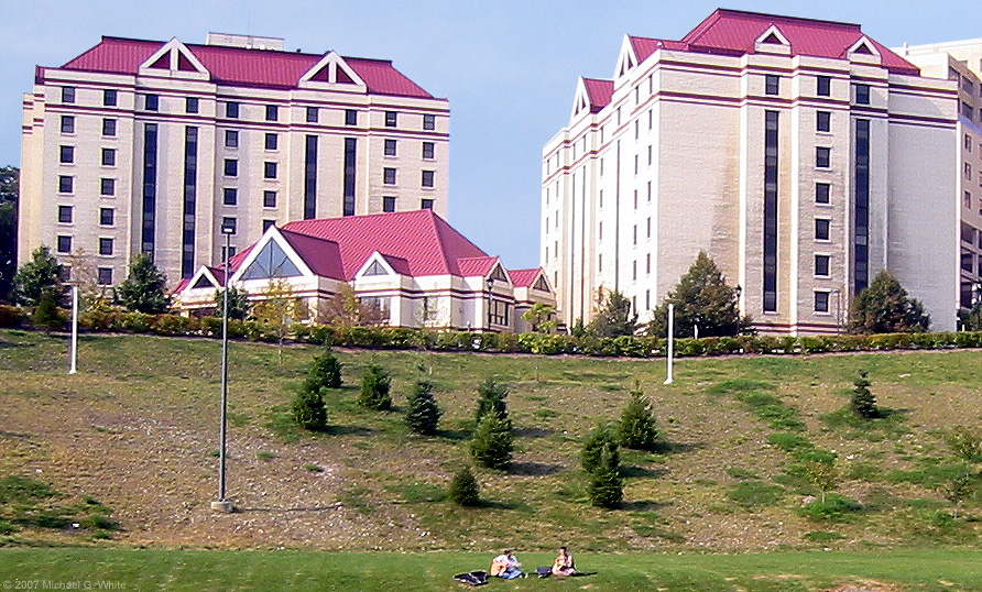 Sutherland Hall at the University of Pittsburgh. photo by Michael G White